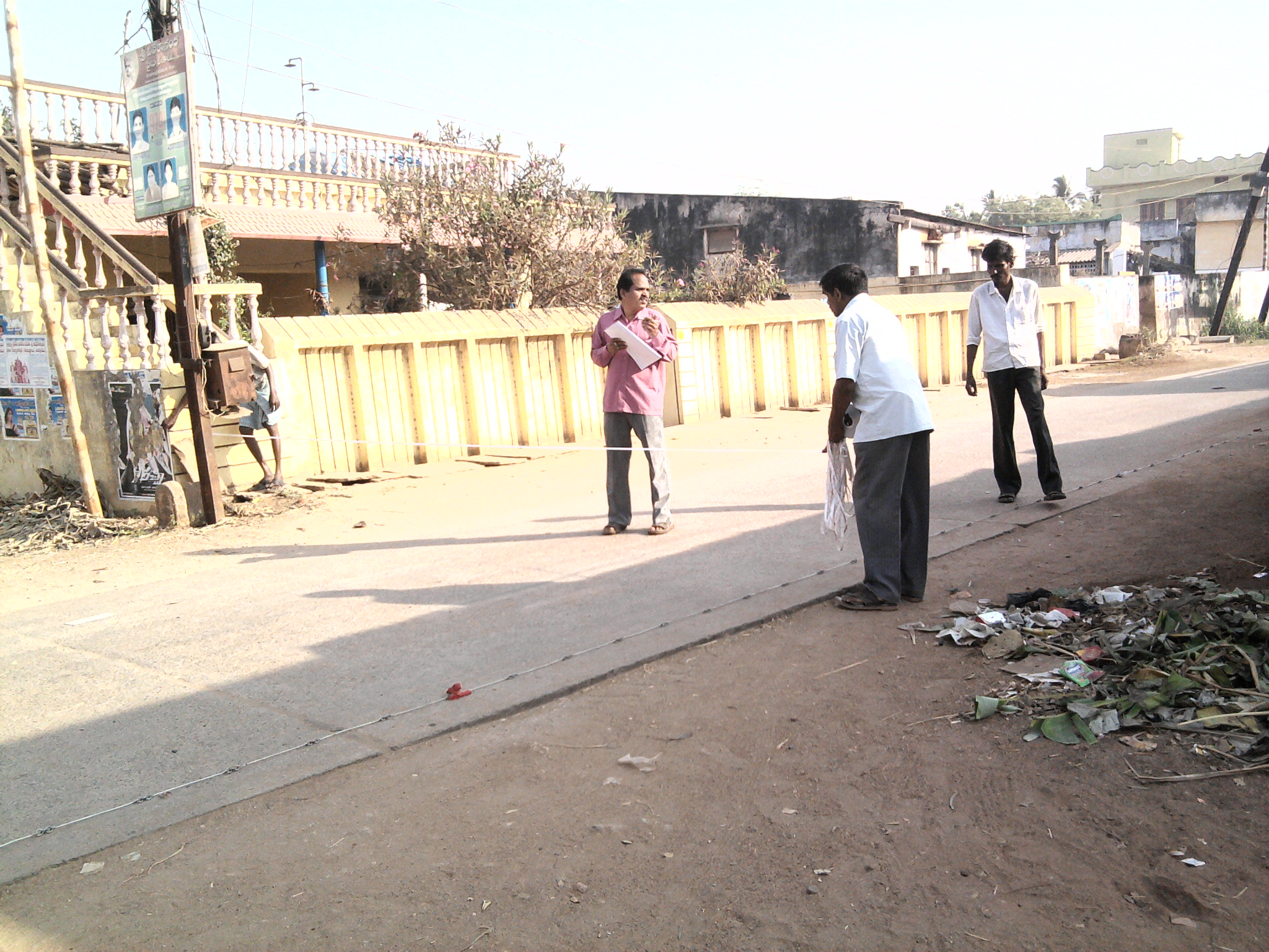 Chain (unit)